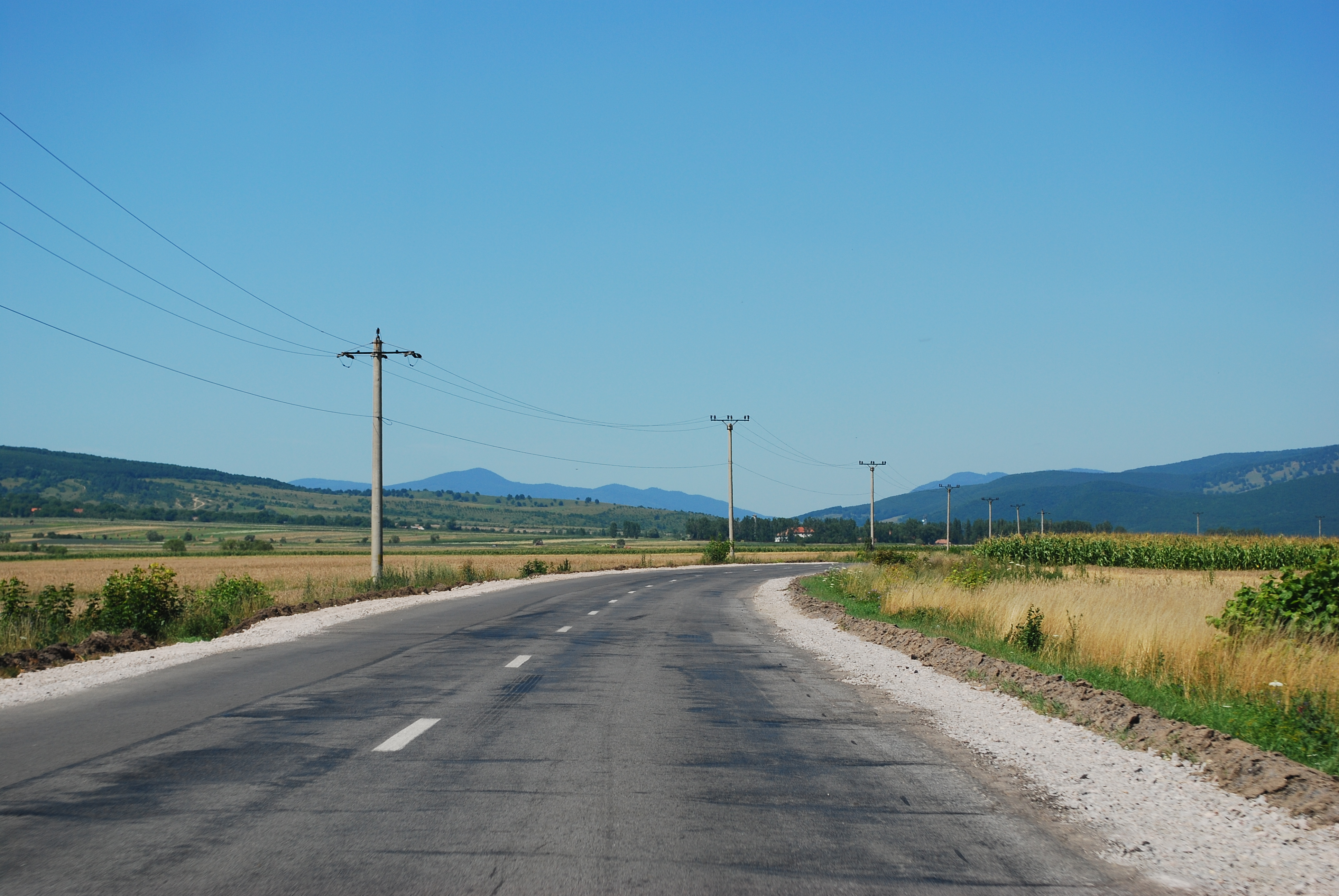 DN12 near Sfântu Gheorghe, Covasna, Romania